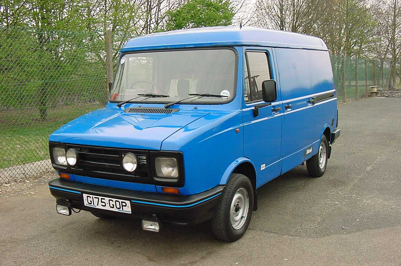 1990 Leyland DAF 200 2.2T panel van. 2.0 litre Perkins Prima normally aspirated direct injection diesel engine with two stage injectors